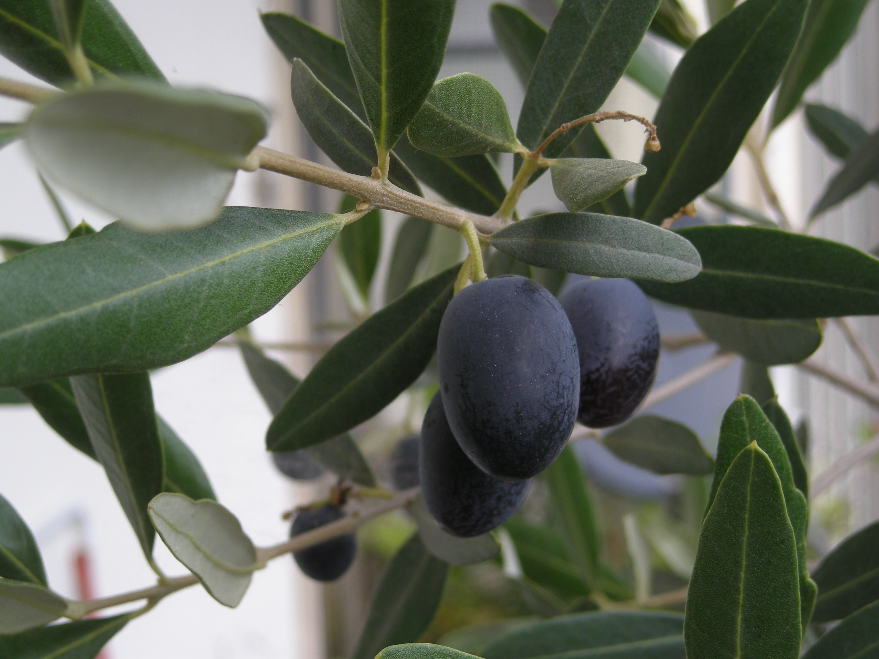 olives